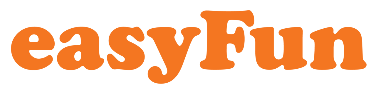 Logo for easyFun